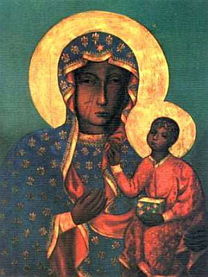 The Black Madonna of Czestochowa